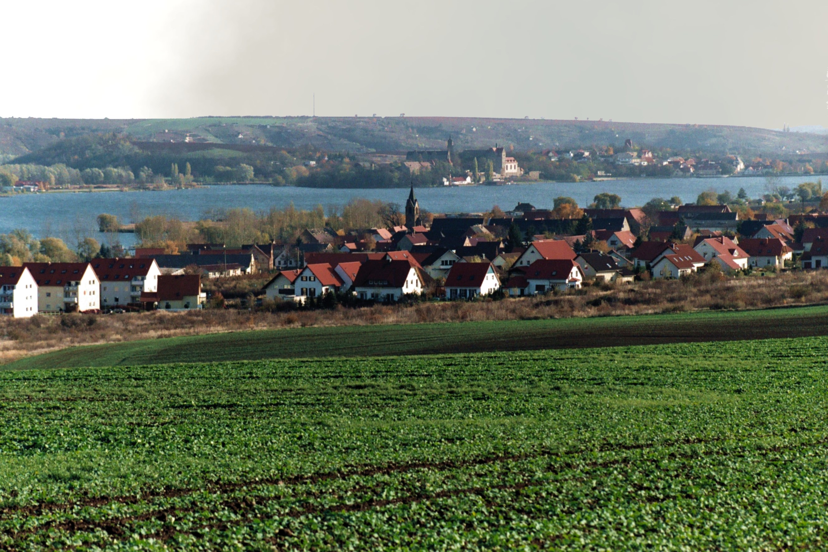 Aseleben (Seegebiet Mansfelder Land), view to the village